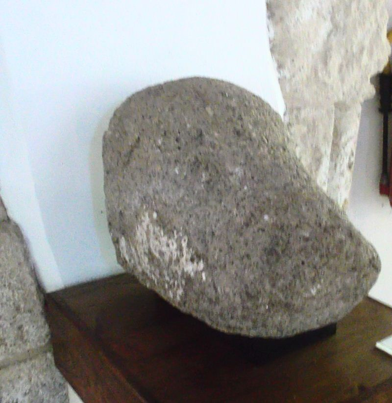 Head of a pre-roman verraco (pig-shaped) sculpture, found in Marvão, Portugal. Verracos (Portuguese: berrão) are typically found in the territory of the Vettones tribe.